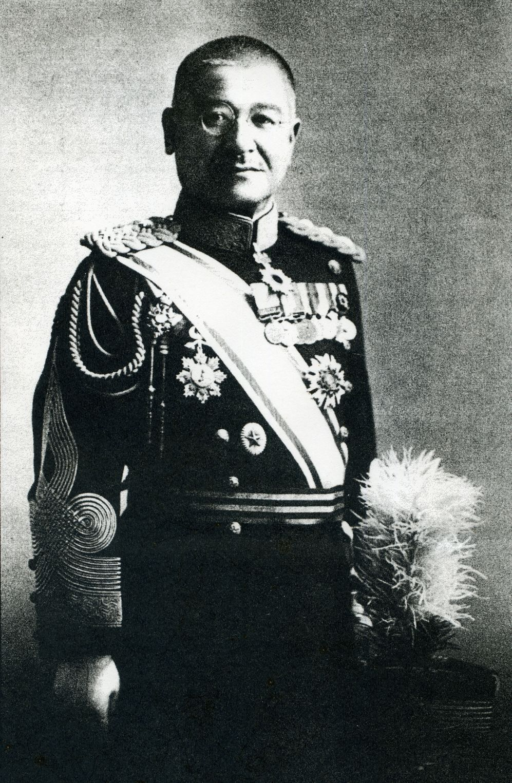 Portrait of Nobuyuki Abe （1875-1953）